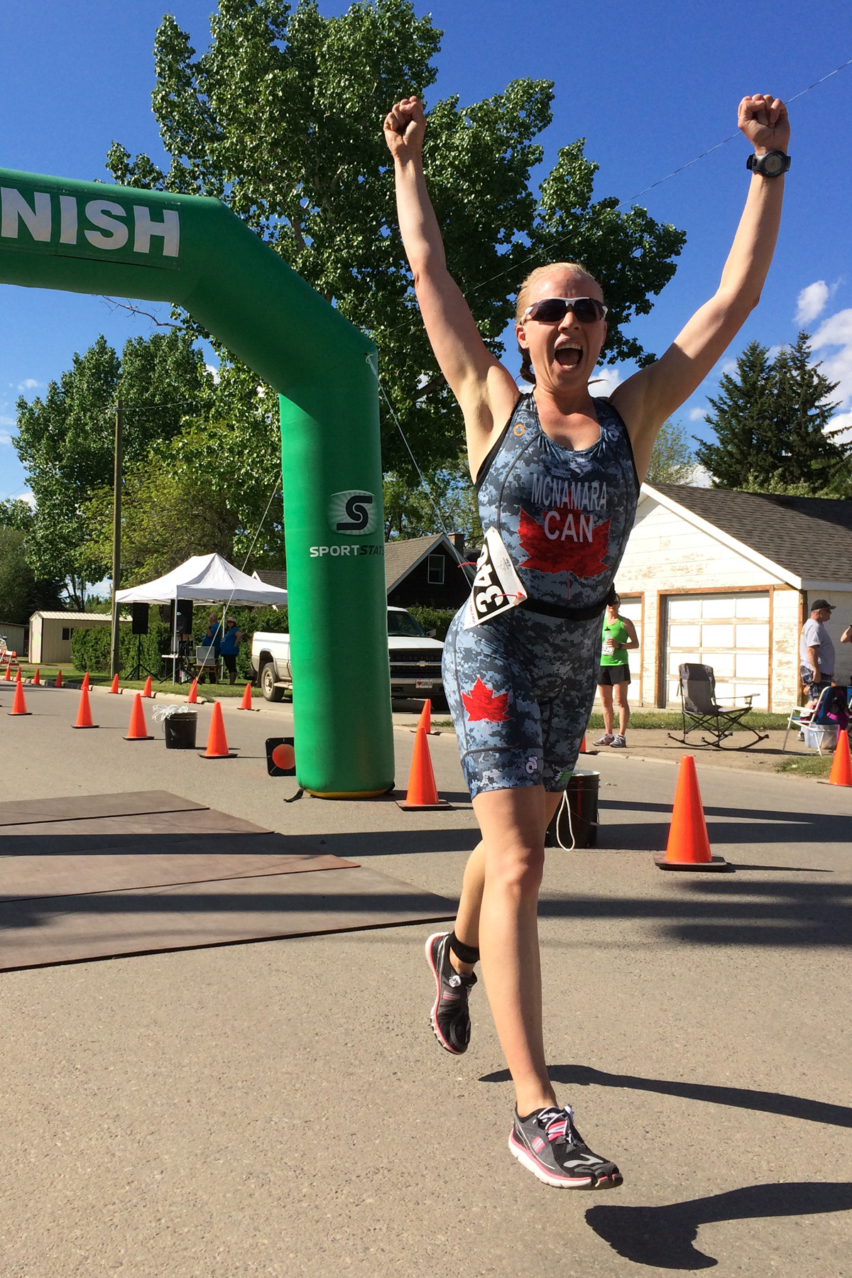 Karmen McNamara Vulcan Alberta